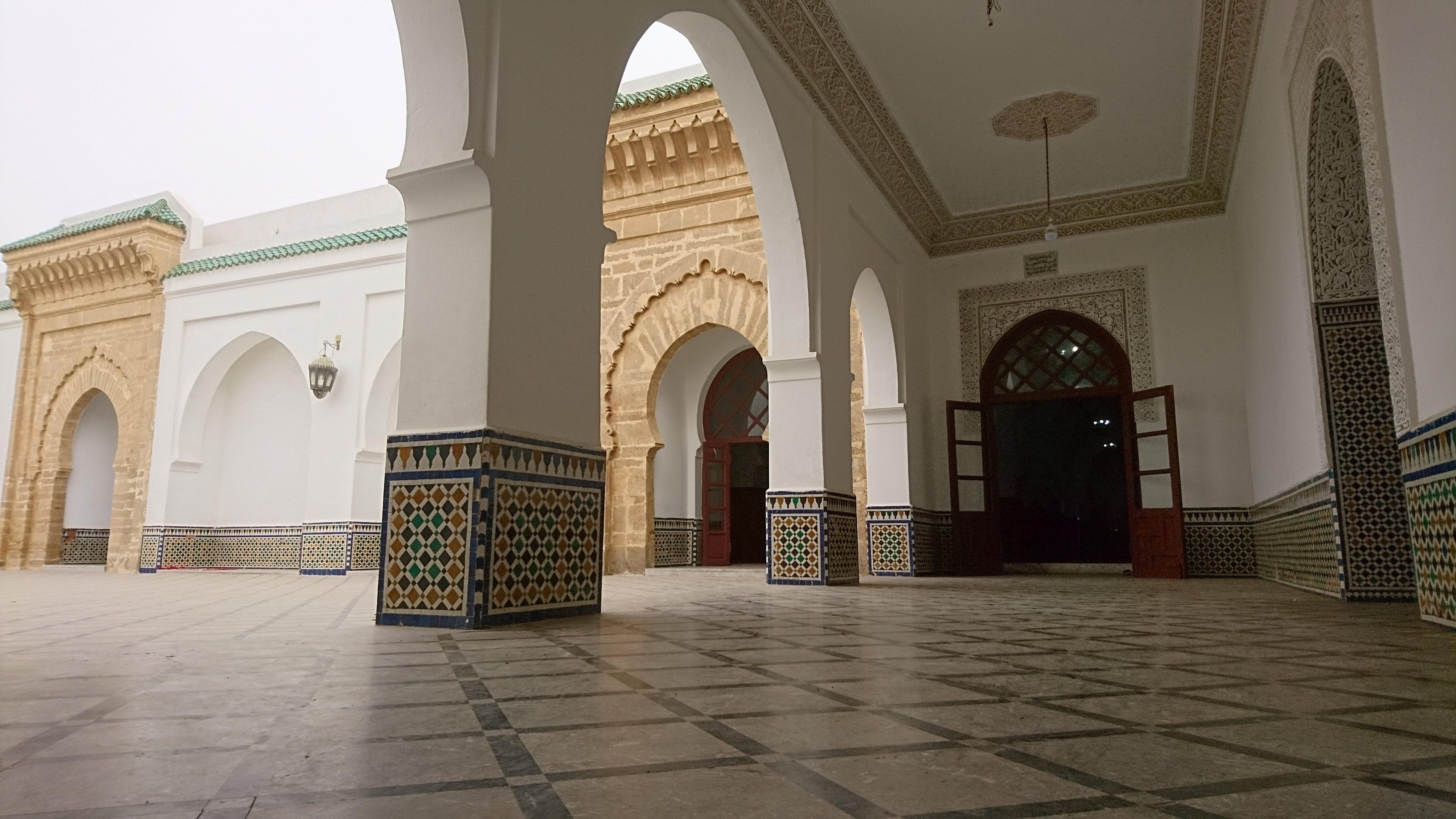 Picture of the hall of the great mosque of Salé